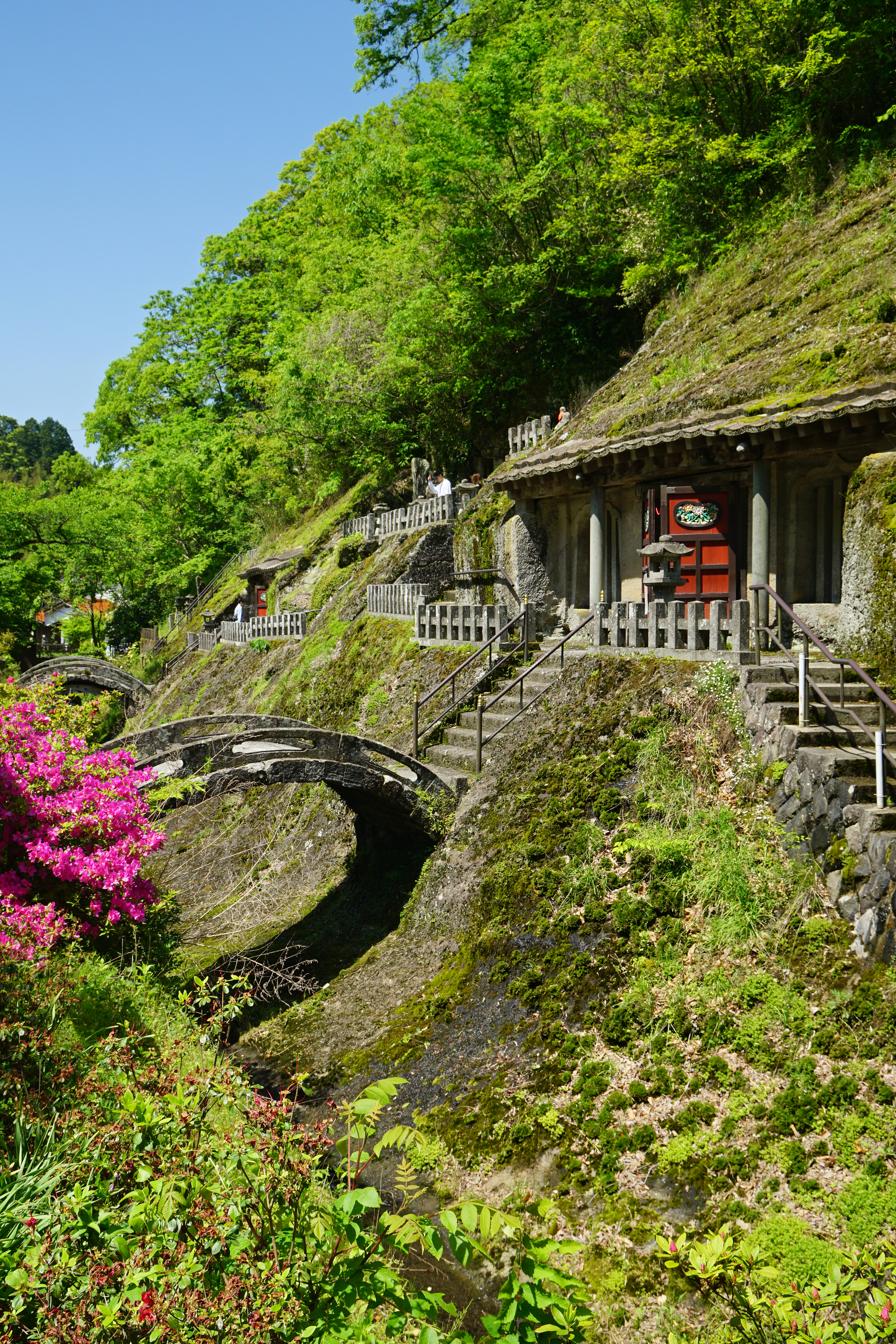 Rakan-ji in Ōda, Shimane prefecture, Japan. It was registered as part of the UNESCO World Heritage Site "Iwami Ginzan Silver Mine and its Cultural Landscape".